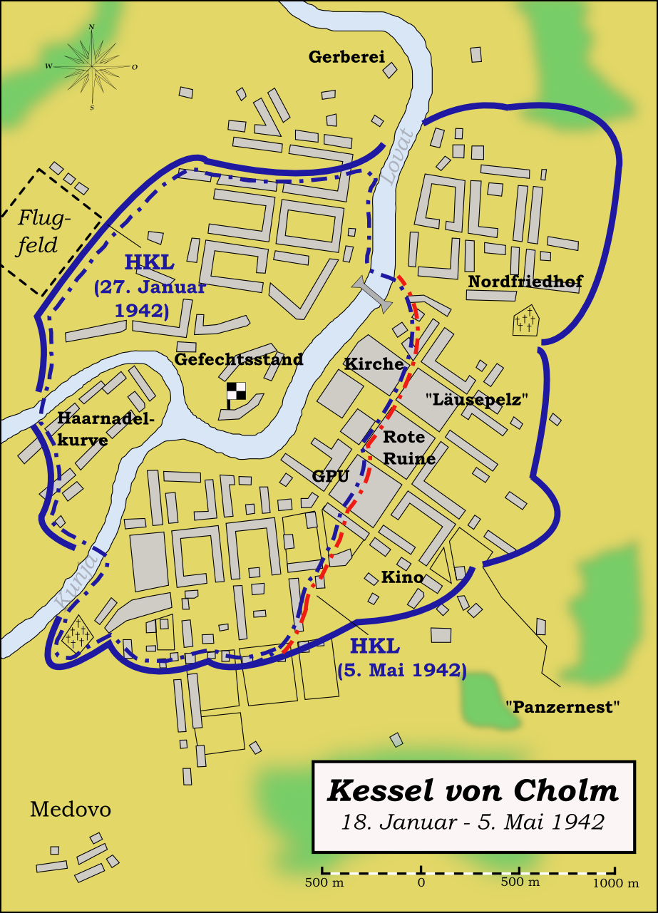 Map (in German language) showing the pocket of Kholm (January - May 1942) during the German-Soviet War 1941-1945.